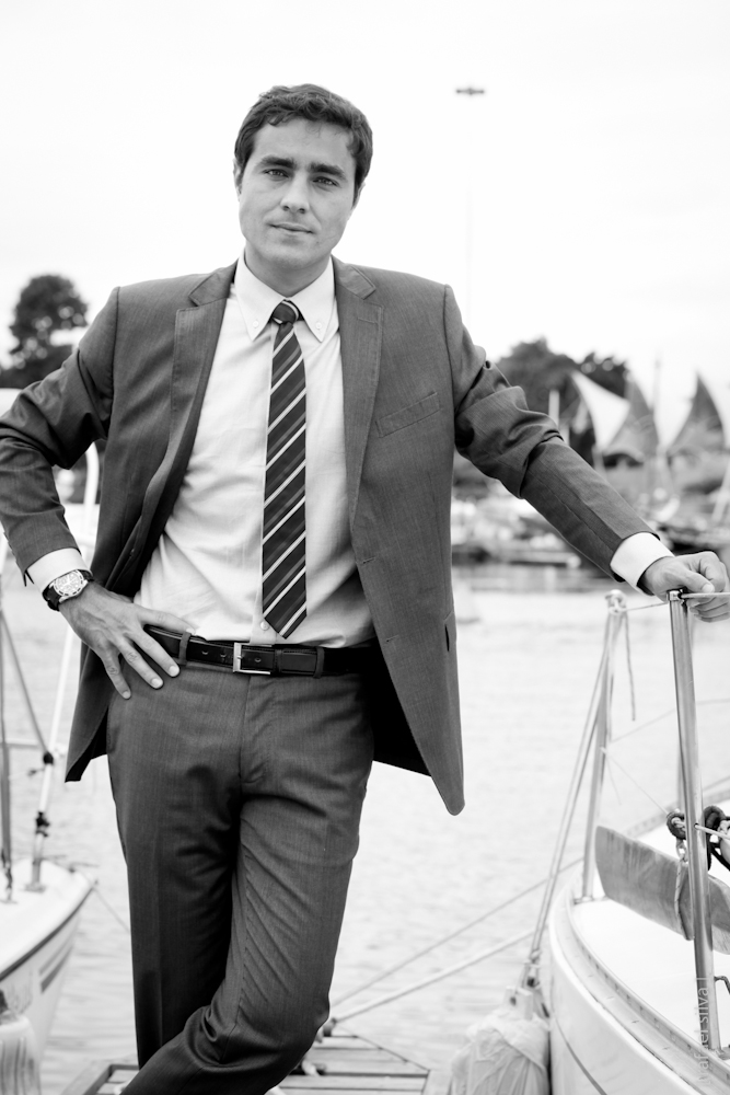 Ator